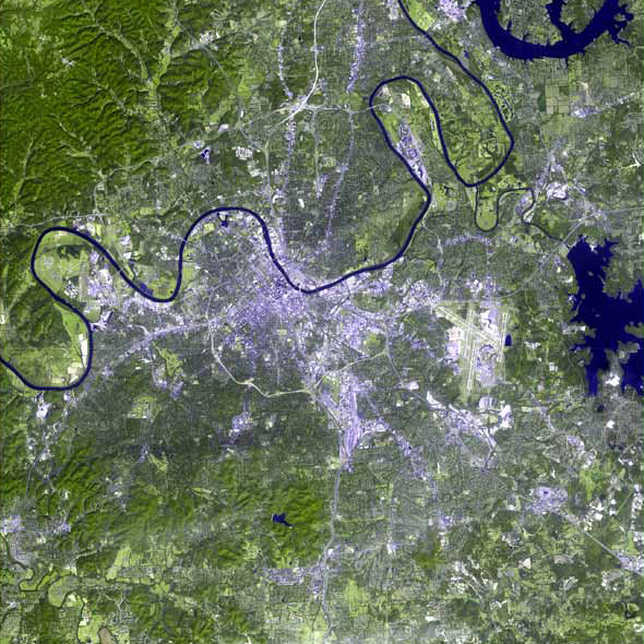 The raw satellite imagery shown in these images was obtained from NASA and/or the US Geological Survey. Post-processing and production by